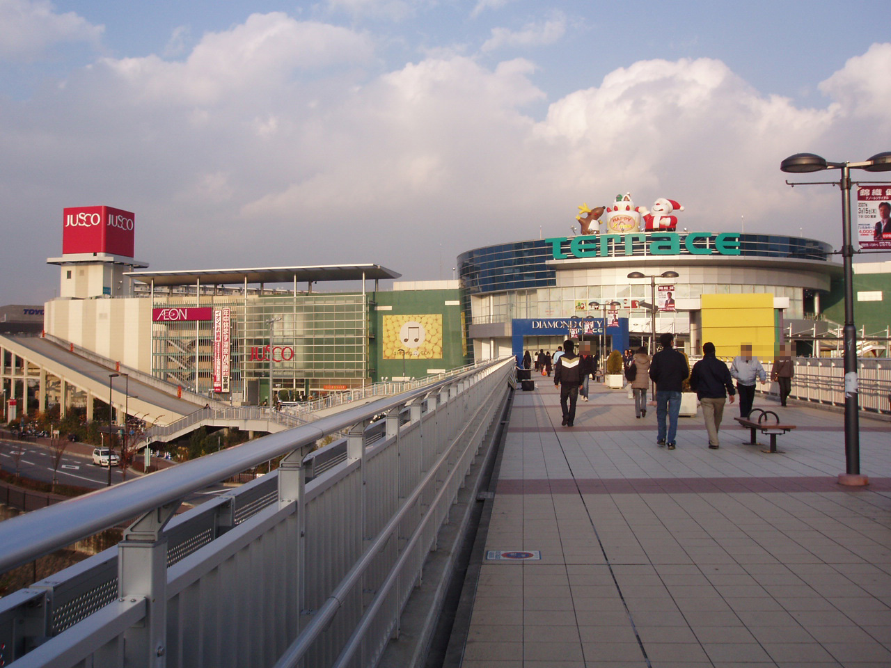 Phorographed from accessway from the Itami stationDiamond City Itami terrace（Now・AEON MALL Itami terrace） for